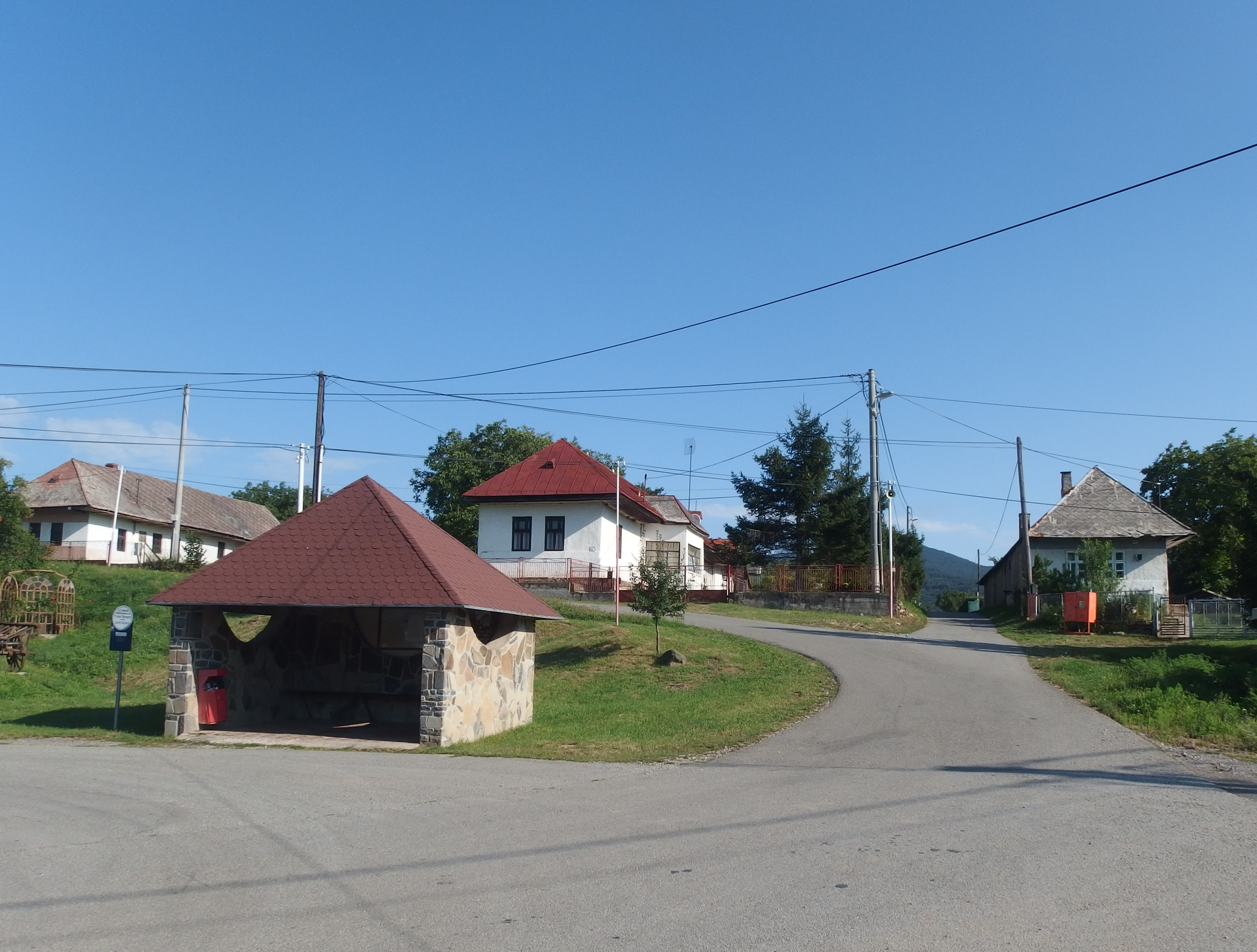 Vyšné Remety, Sobrance Distict, Slovakia.